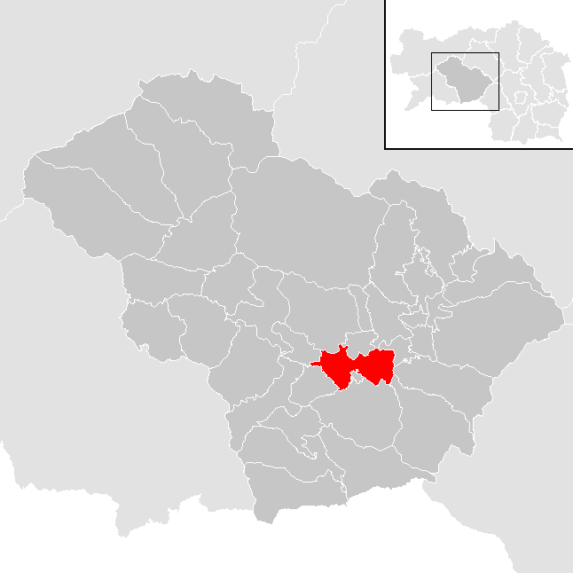 district Murtal in Styria, Austria